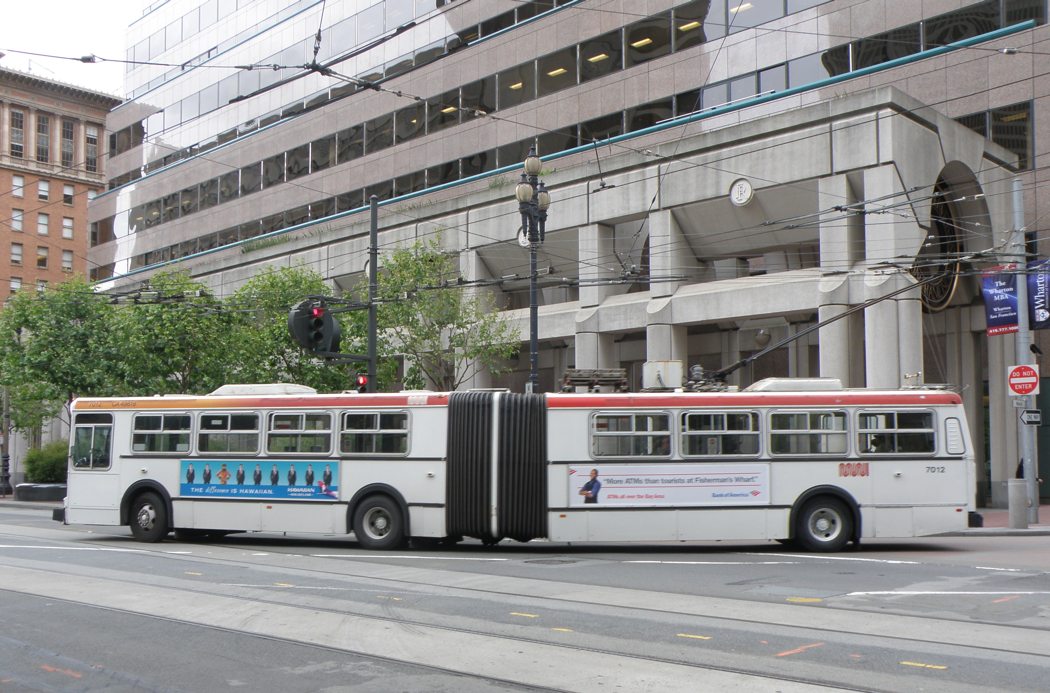 A broadside, offside view of a San Francisco New Flyer E60 articulated trolleybus turning east onto Market Street from Main Street in 2011. Number 7012 was built in 1993 and entered service in 1994. It was repainted into the silver-and-red paint scheme in 2012. The last 28 active trolleybuses of this type, of which No. 7012 was one, were retired in January 2015.